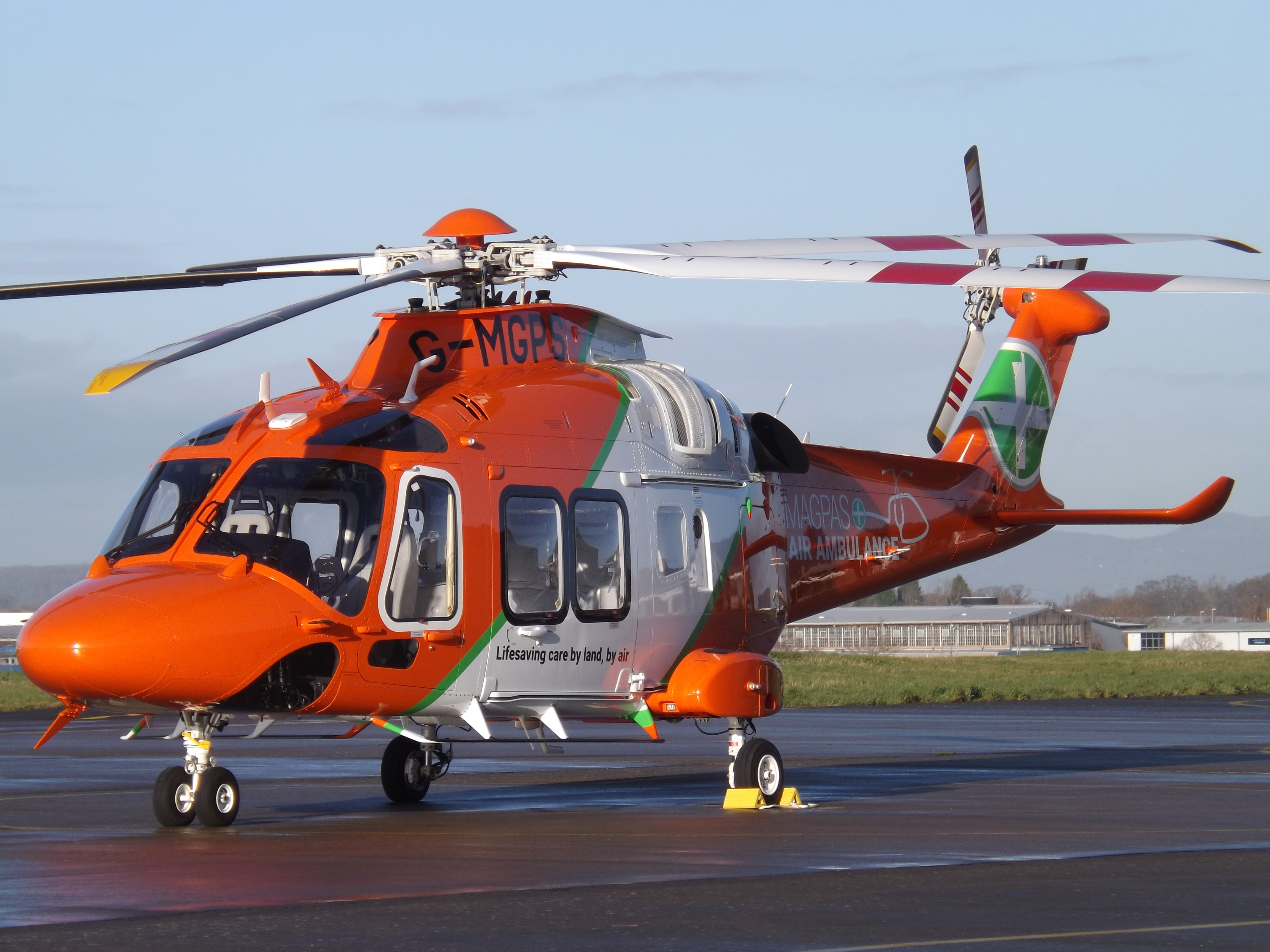 G-MGPS Leonardo AW169 Magpas Air Ambulance Helicopter